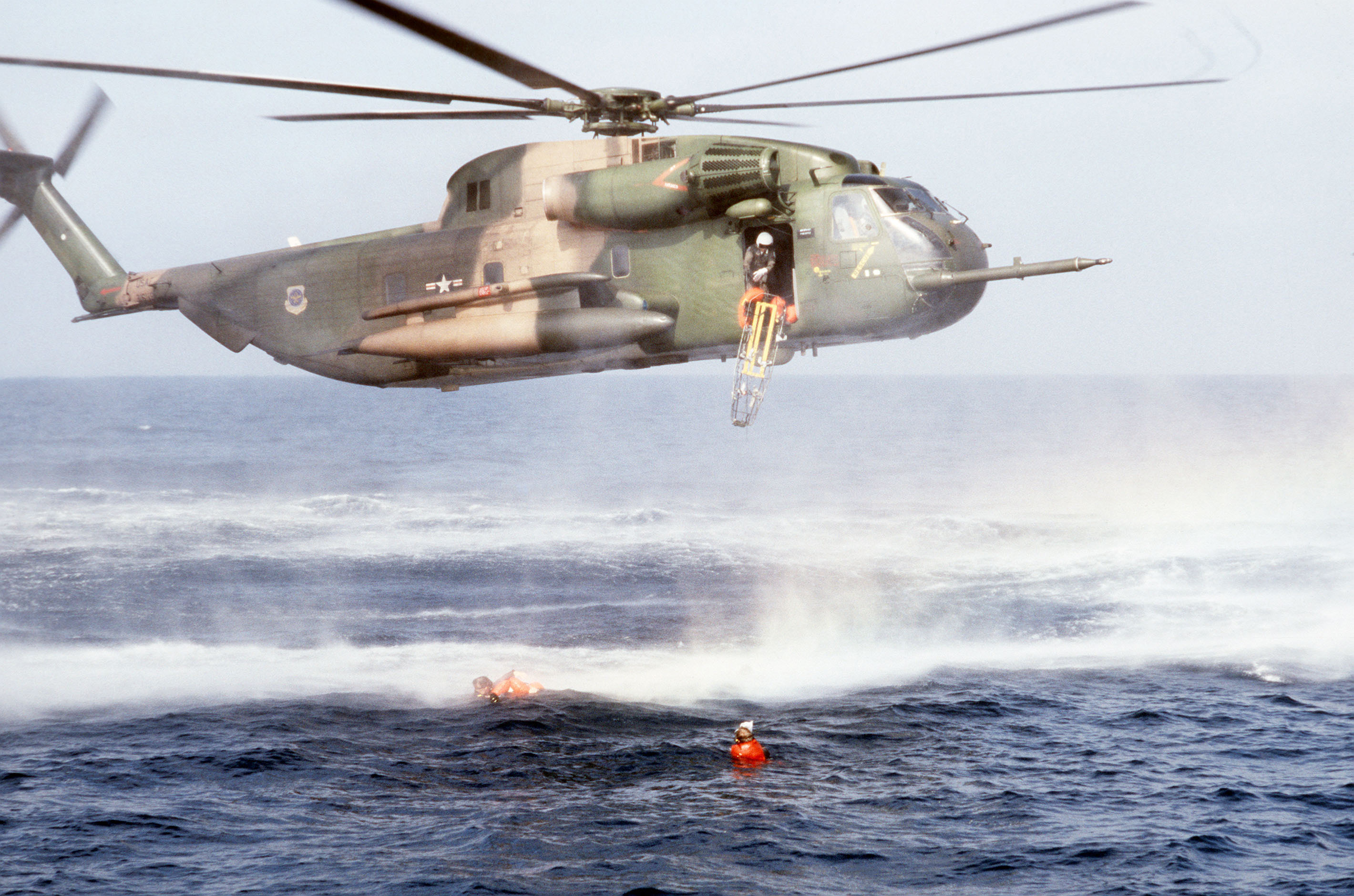 A litter is dropped from a hovering U.S. Air Force Sikorsky HH-53C Super Jolly Green Giant helicopter to pararescuemen of the 55th Aerospace Rescue and Recovery Squadron, Eglin Air Force Base, Florida (USA), as they assist a "survivor" floating in the water on 15 November 1978. The sea rescue exercise was being staged for a movie production.